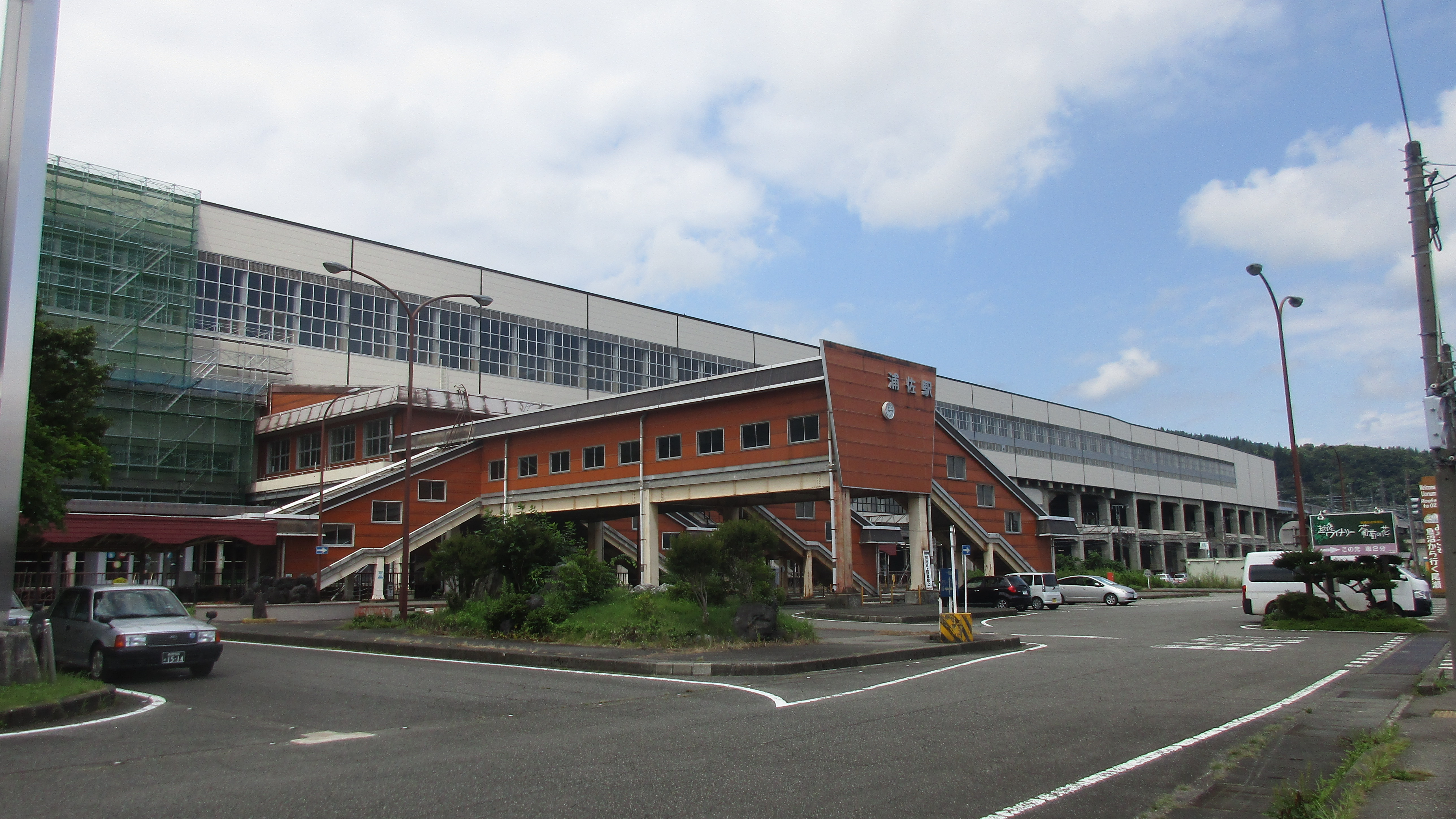 JR上越線 浦佐駅舎